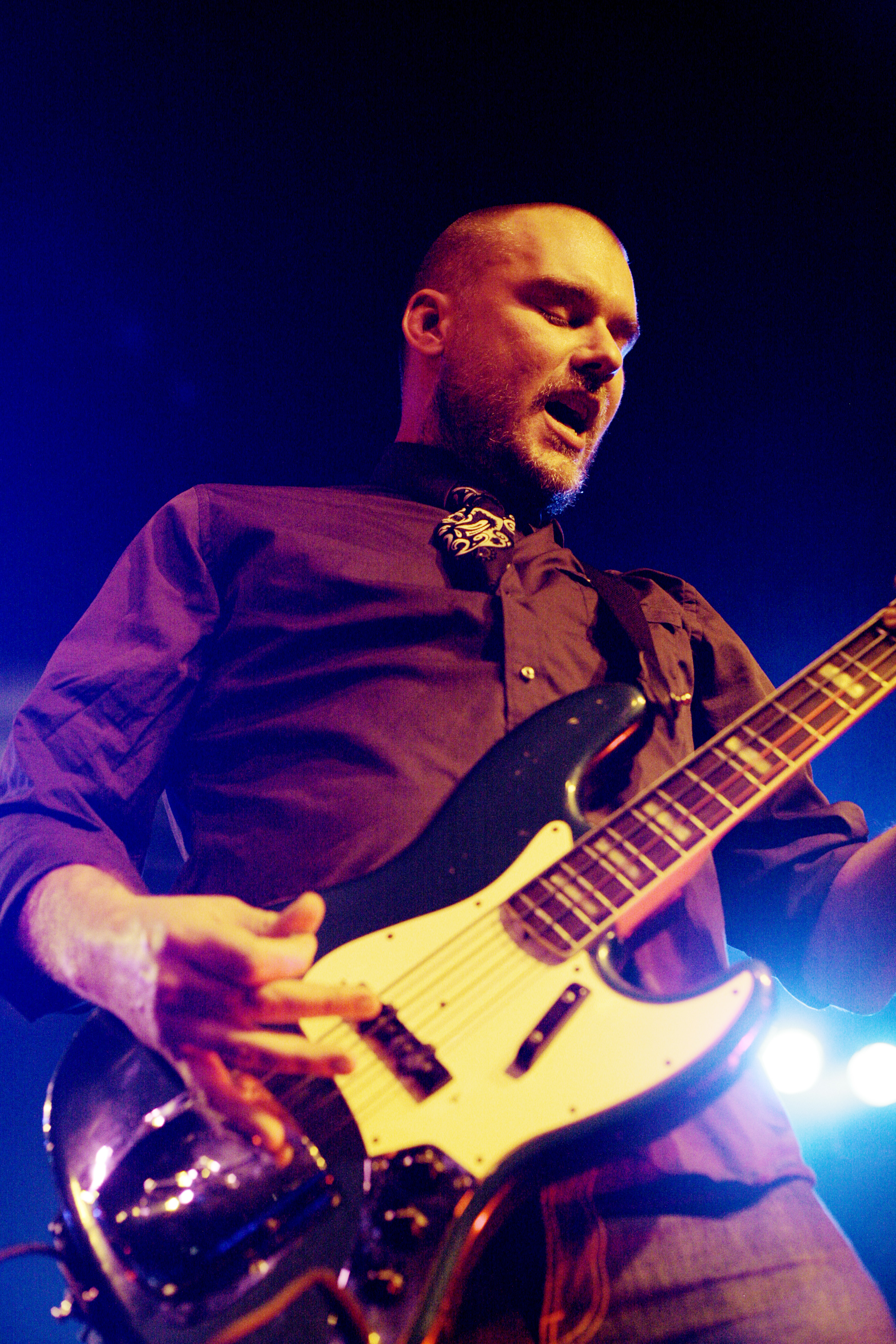 Magnus Sveningsson from The Cardigans